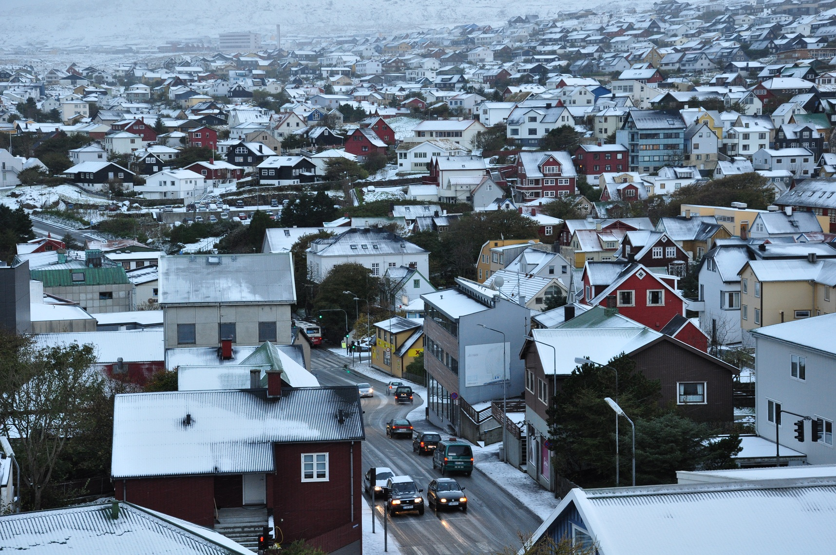 View over central Tórshavn (looking into Bøkjarabrekka street, seen from the King’s Monument (Kongaminni) at Hoyvíksvegur).